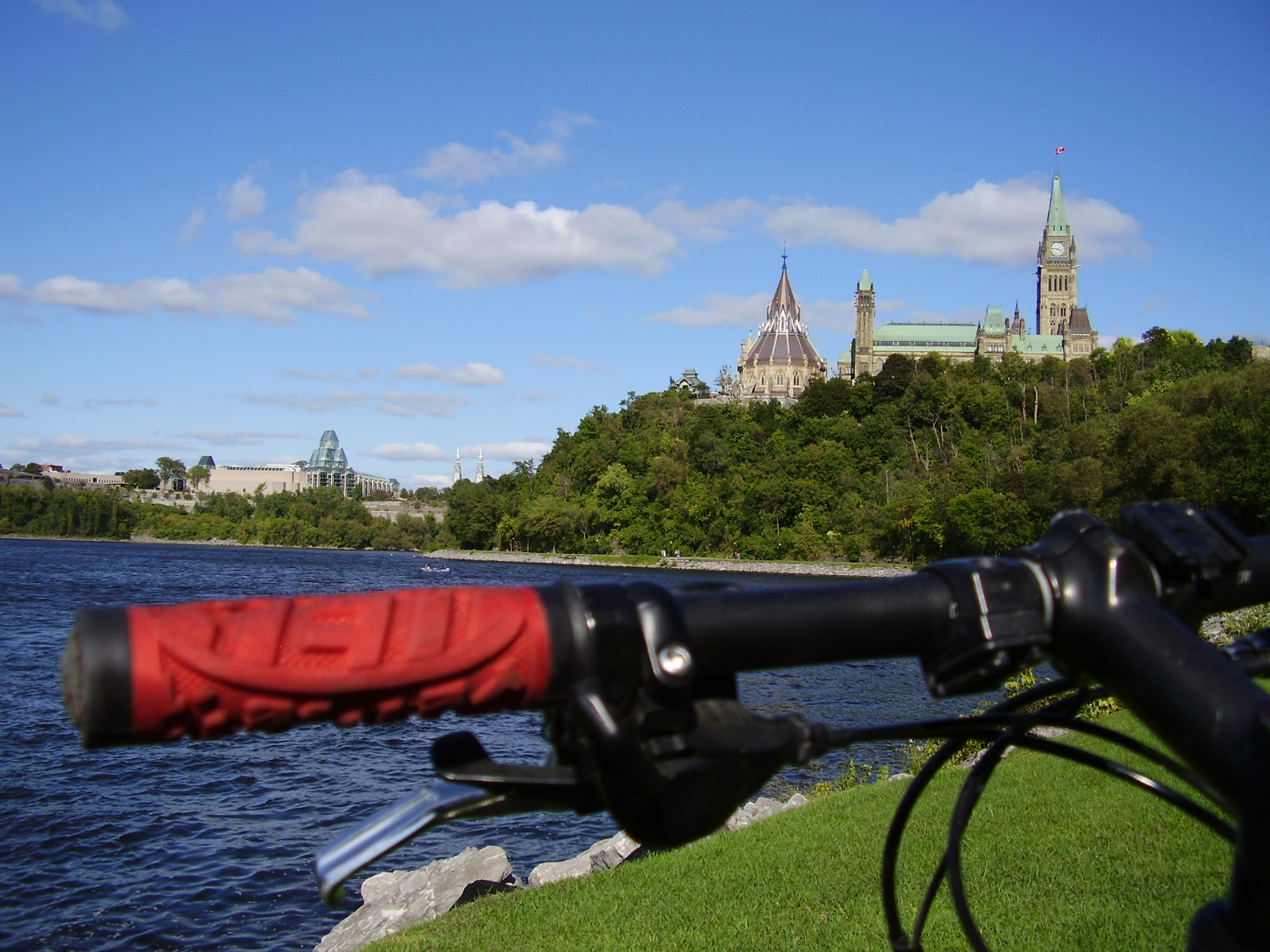 Bicycle handle bars, with view of Parliament Hill, Ottawa, Canada.